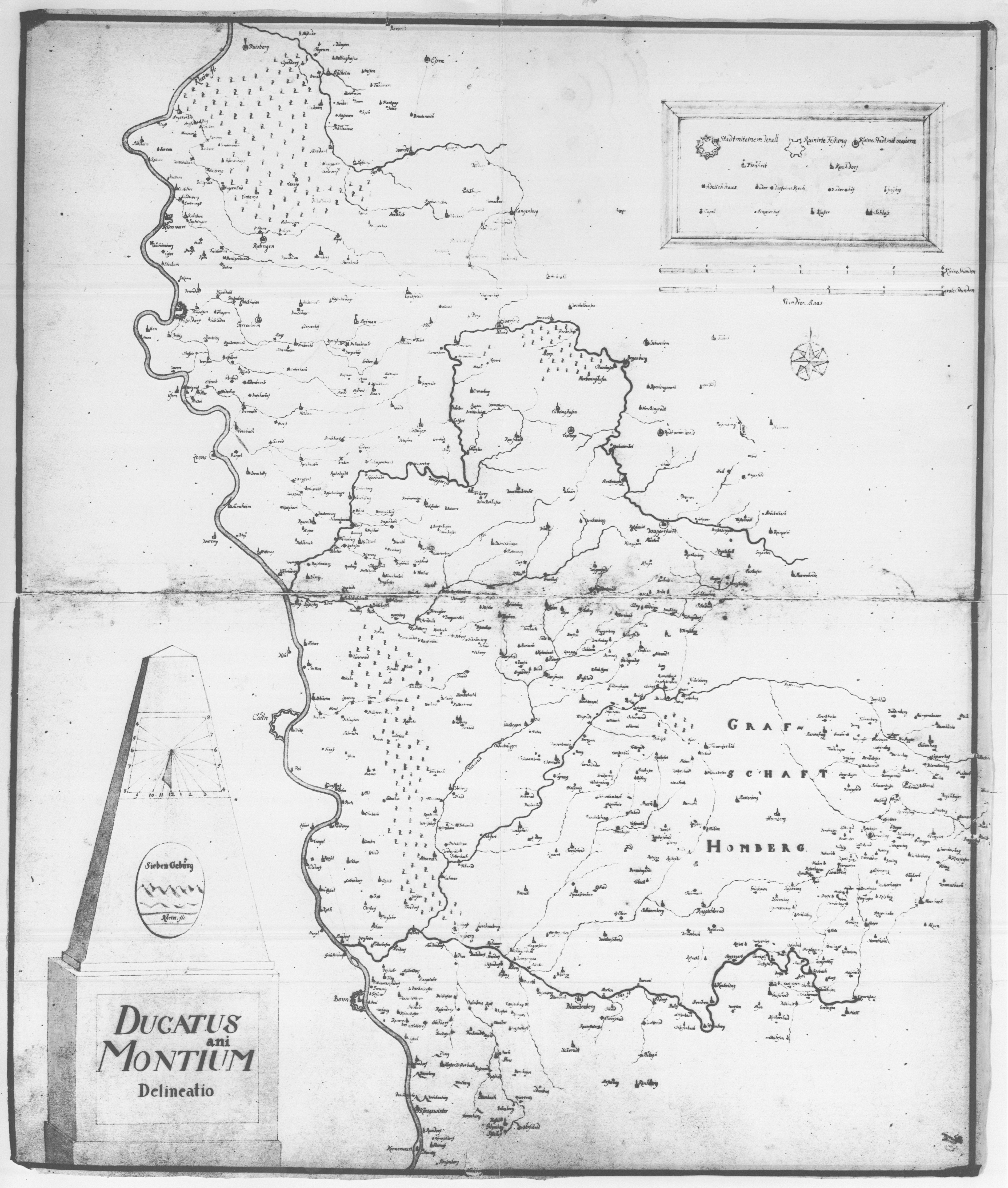 Overview map of the Duchy of Berg (1715)